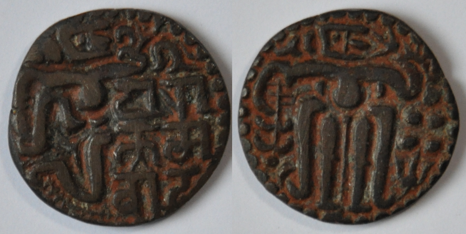 A Copper Massa coin of King Parakramabahu II (1236 - 1271) of Sri Lanka.